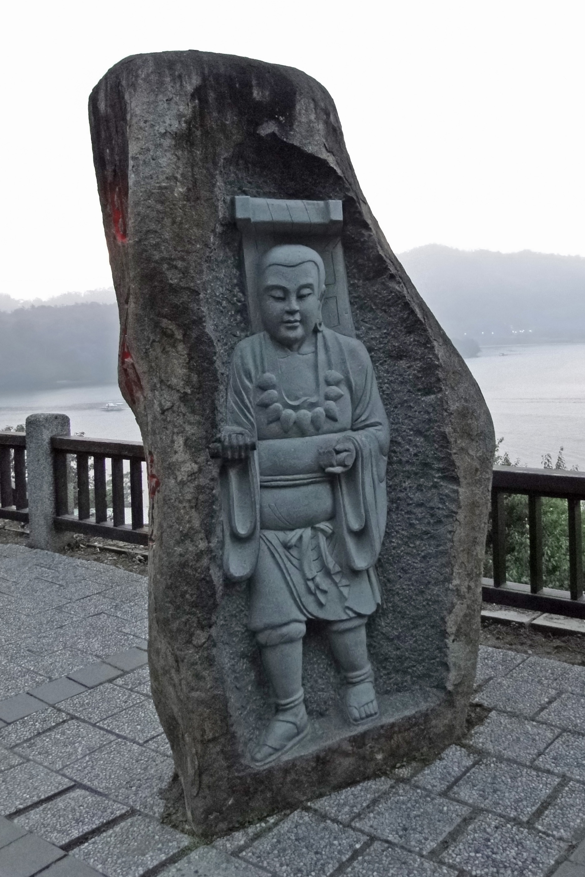 Statue of Xuanzang at Xuanguang Temple, Sun Moon Lake, Nantou County, Taiwan